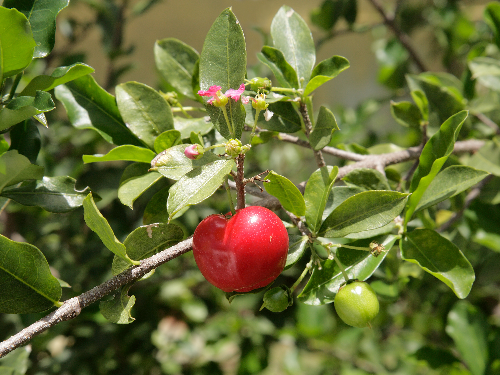 Close-up of the blossom and fruit of a Brazilian acerola (Malpighia glabra).